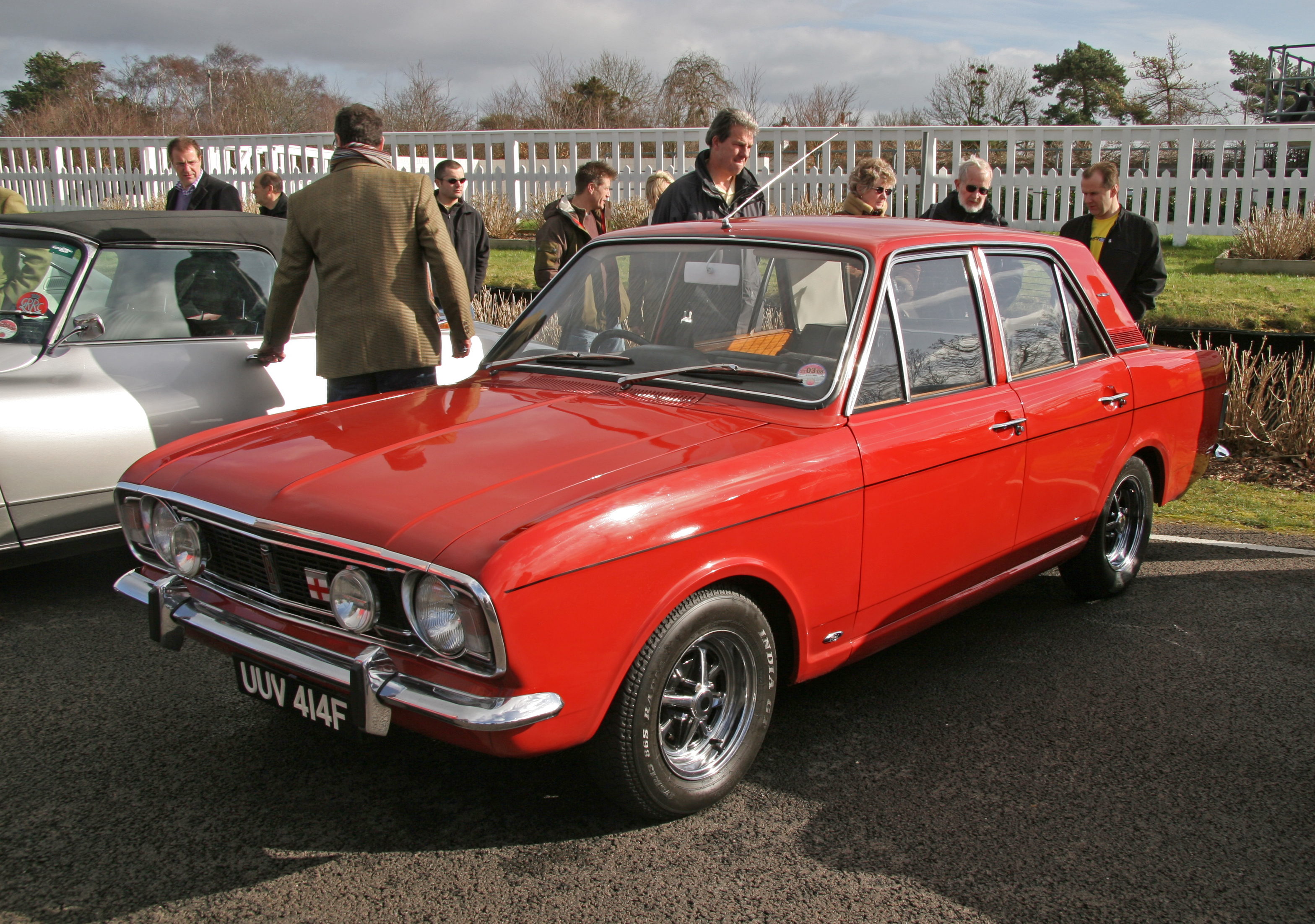 Ford Cortina MkII 1600E